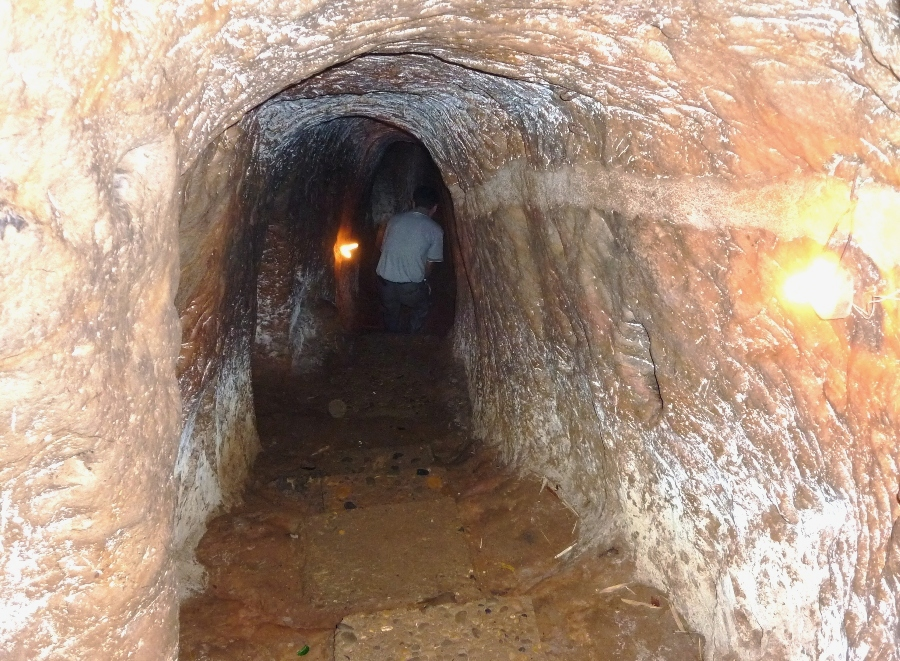 Going down to the next level.